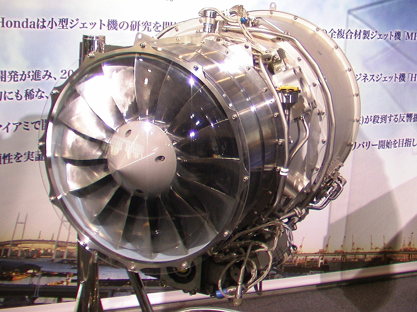 Honda HF118 Turbofan jetengine cutaway model